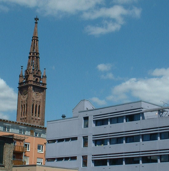 view of Ludwigshafen, Germany